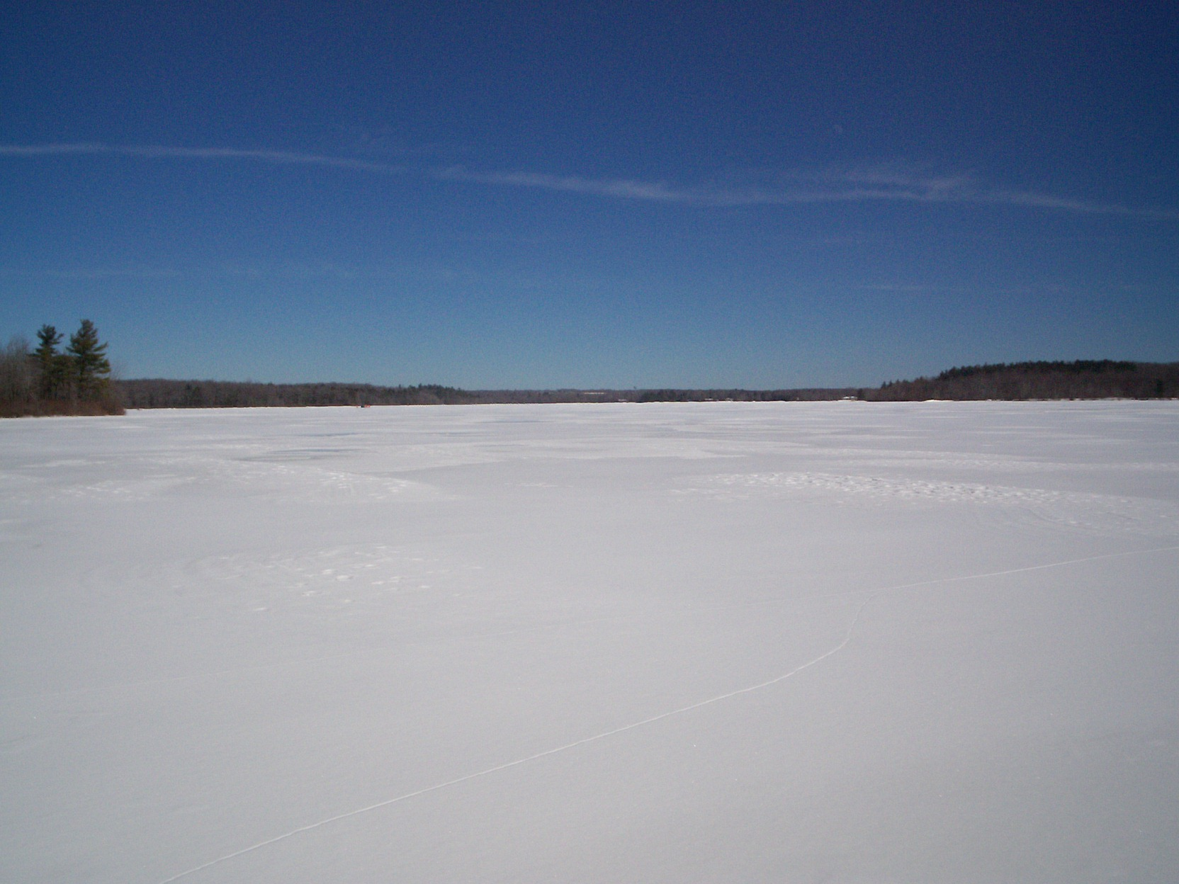 The frozen lake at Camp Minsi